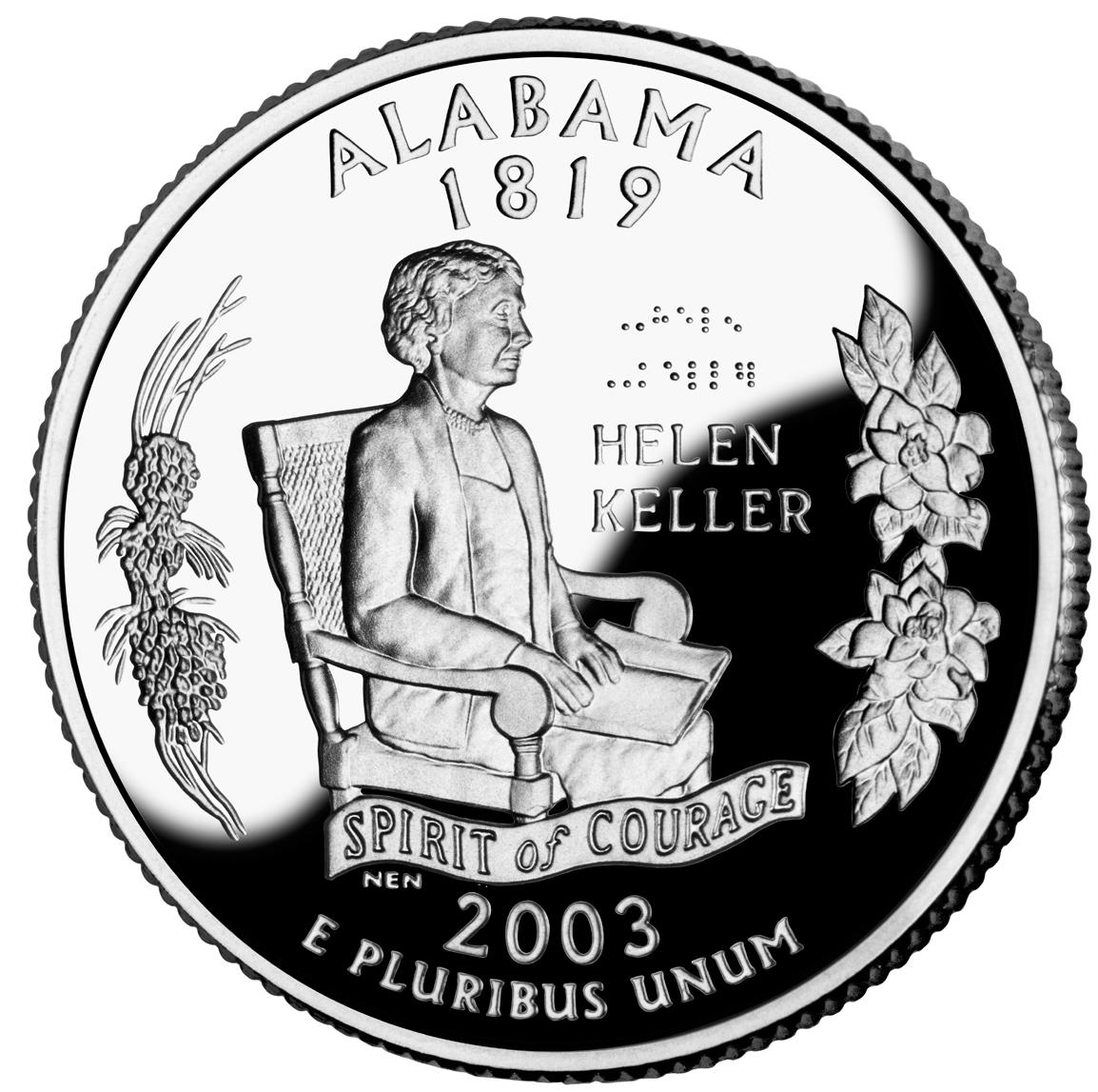 The reverse side of the Alabama State Quarter. It is a "proof".